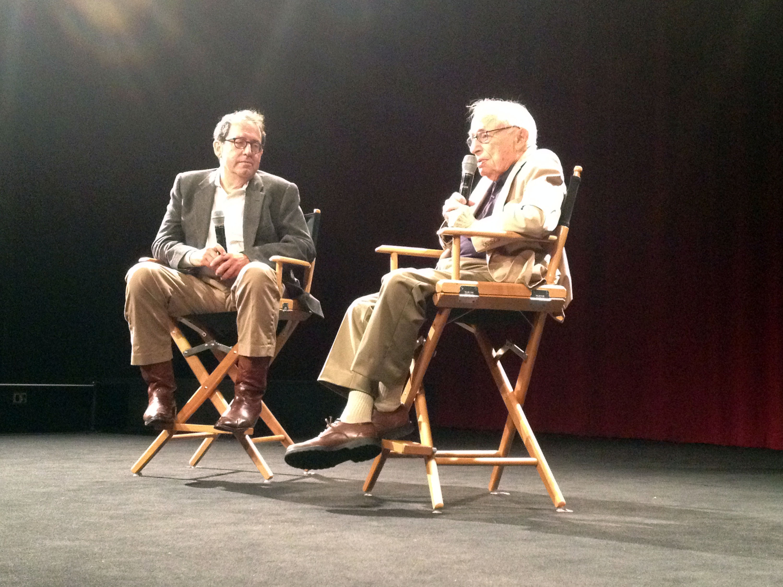 Sony Pictures Classics co-founder and co-president Michael Barker (left) and screenwriter/producer Walter Bernstein (right) during a June 7, 2016 Q&A that followed a screening of the 1976 film The Front, whose screenplay Bernstein wrote, at the SVA Theater in Manhattan. This photo was created by Luigi Novi. It is not in the public domain, and use of this file outside of the licensing terms is a copyright violation.